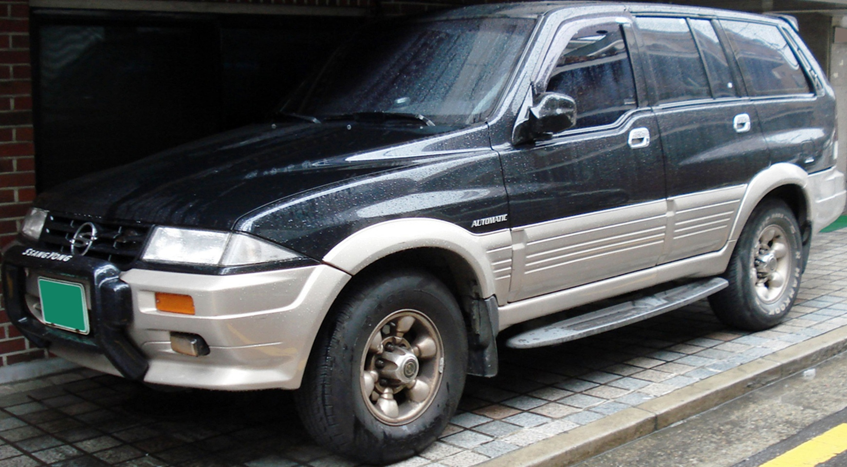 SsangYong Musso